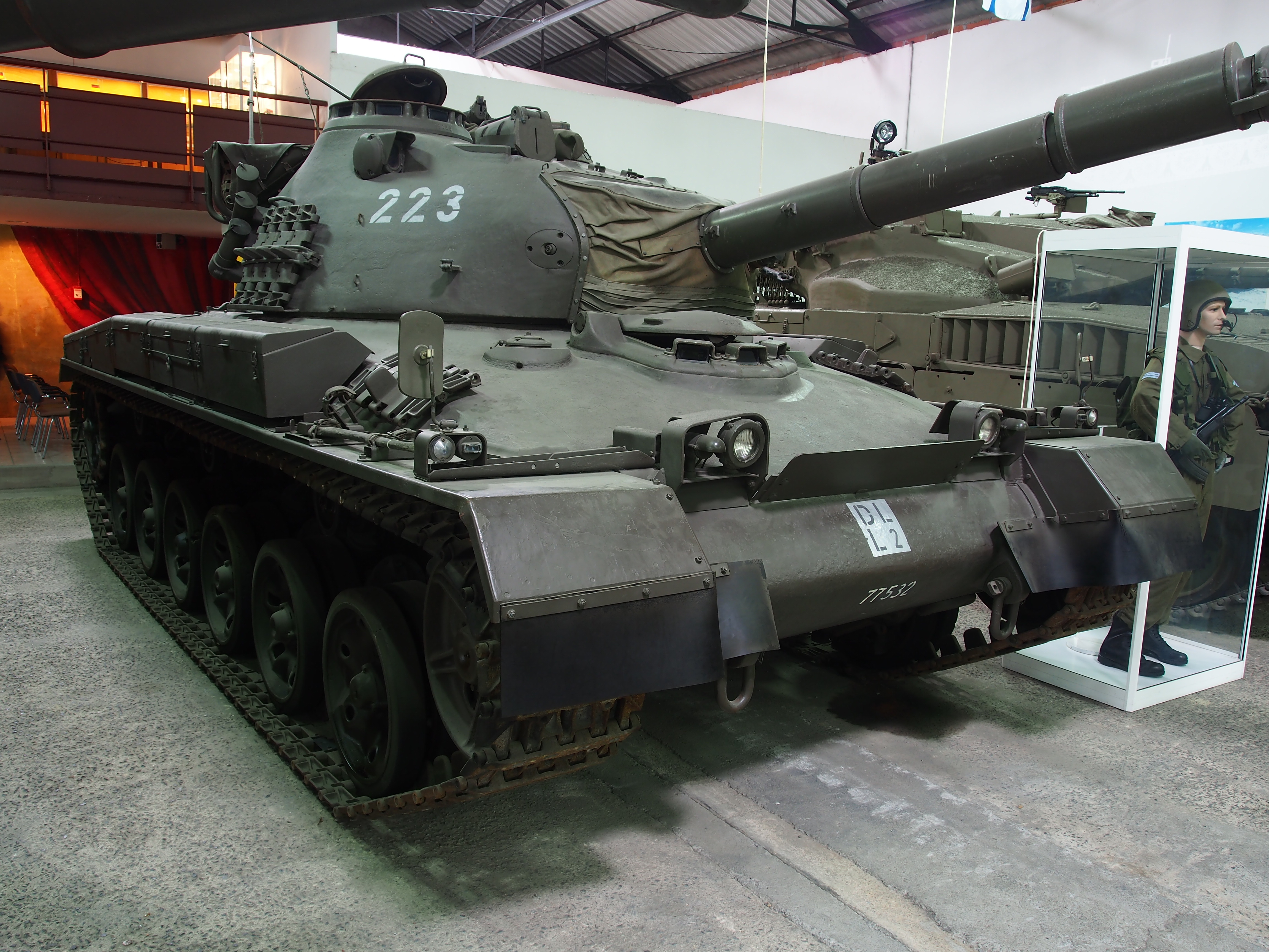 Photographed in the Musée des Blindés, France.